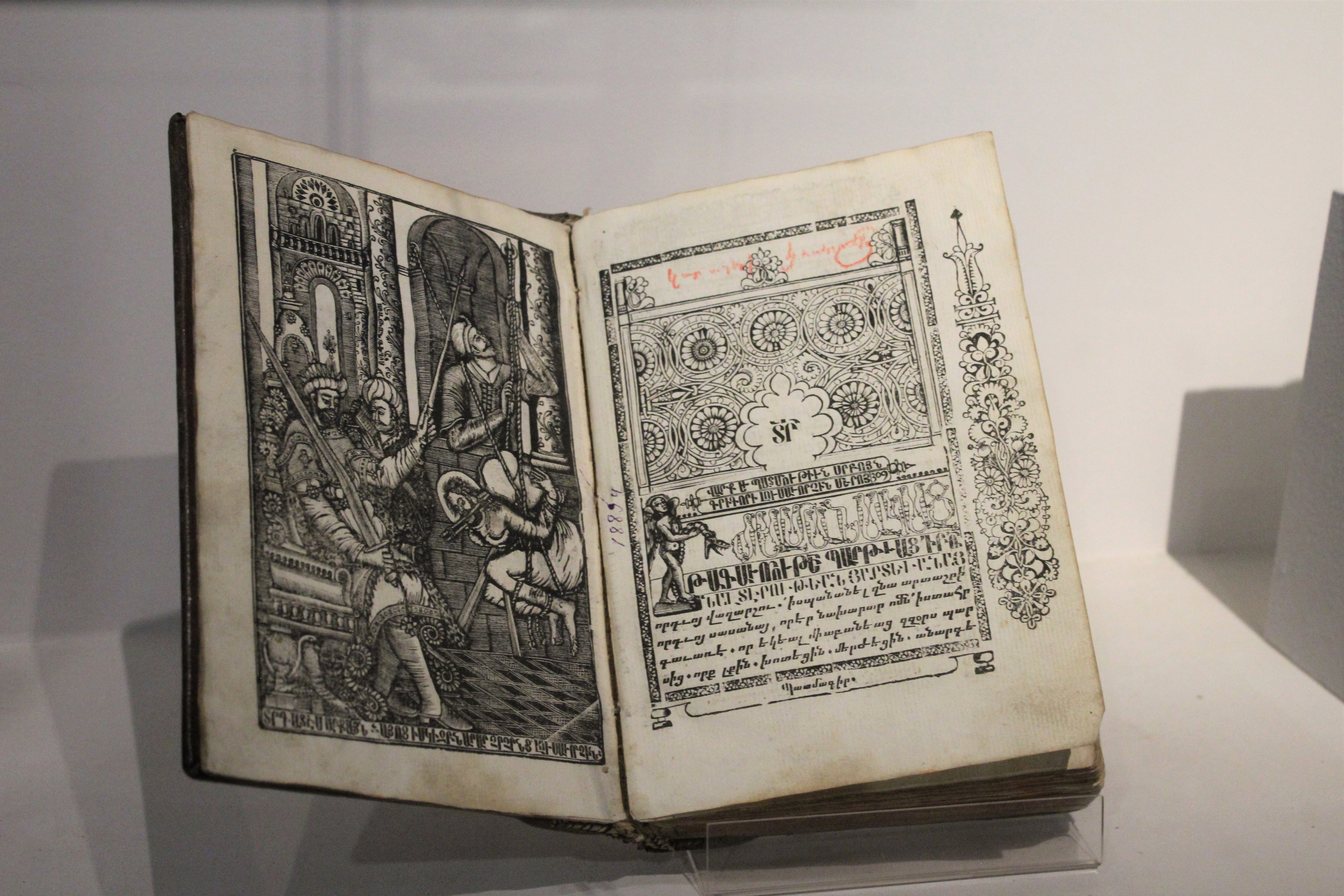 Agathangelos, History of St. Gregory and the Conversion of Armenia